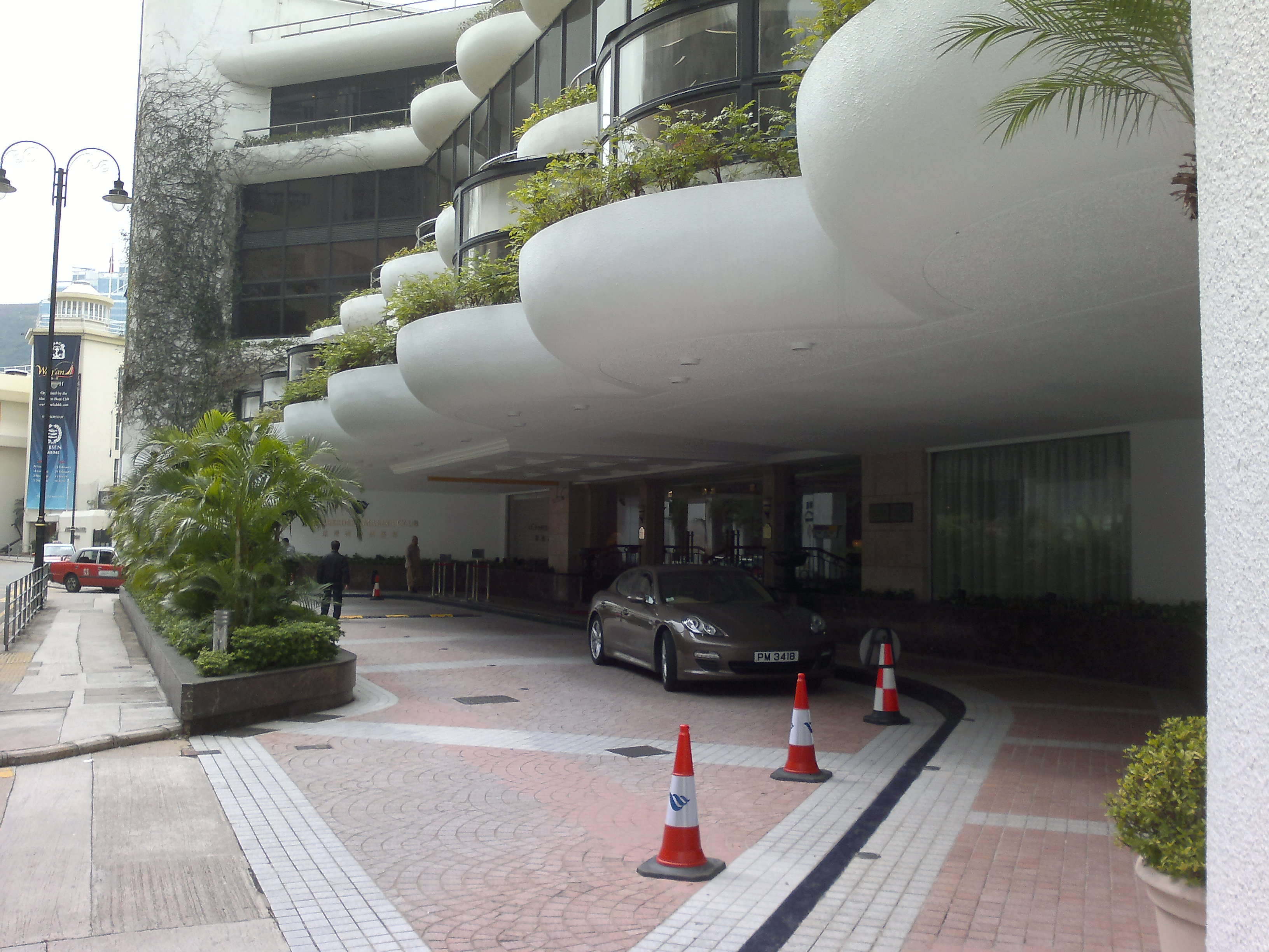 Aberdeen Marina Club Entrance